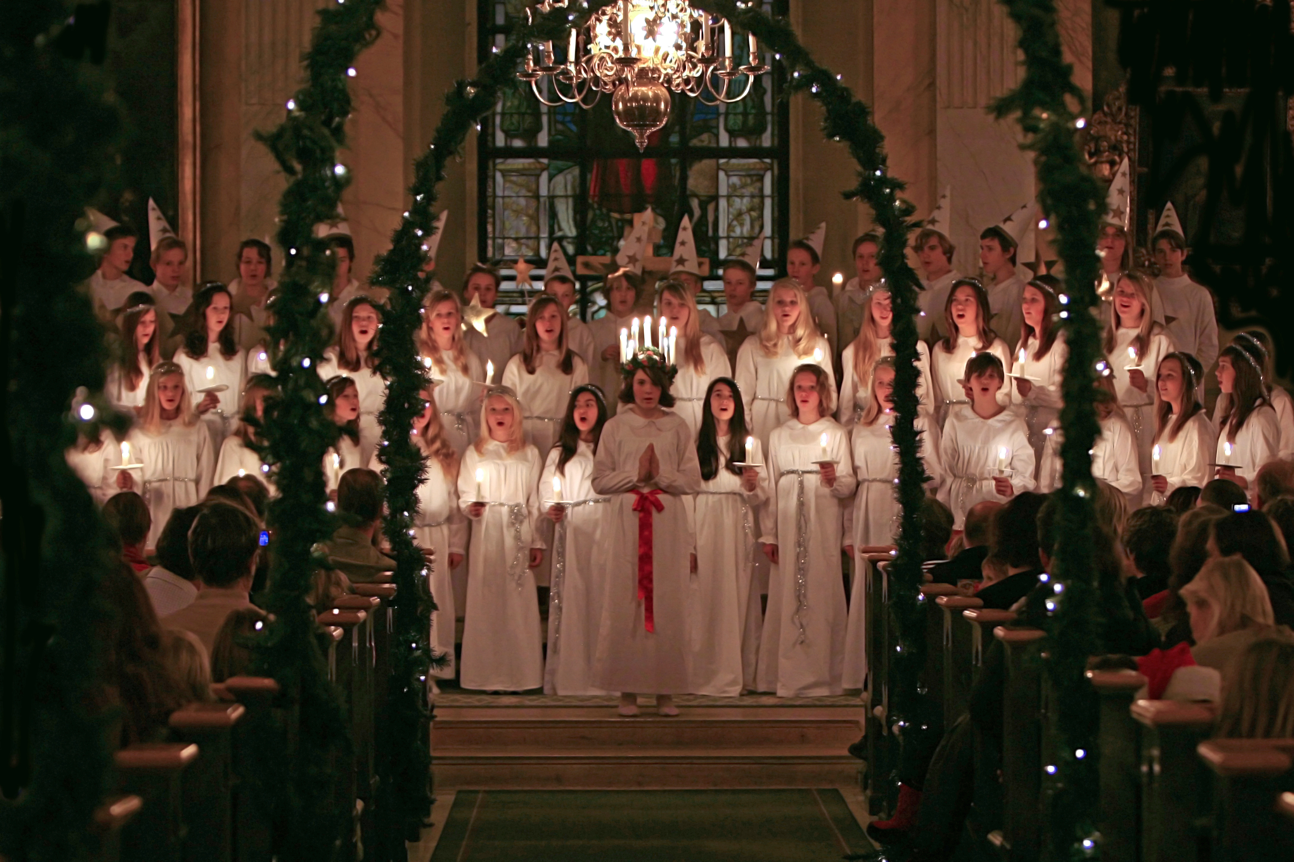 Lucia in Vaxholm's church